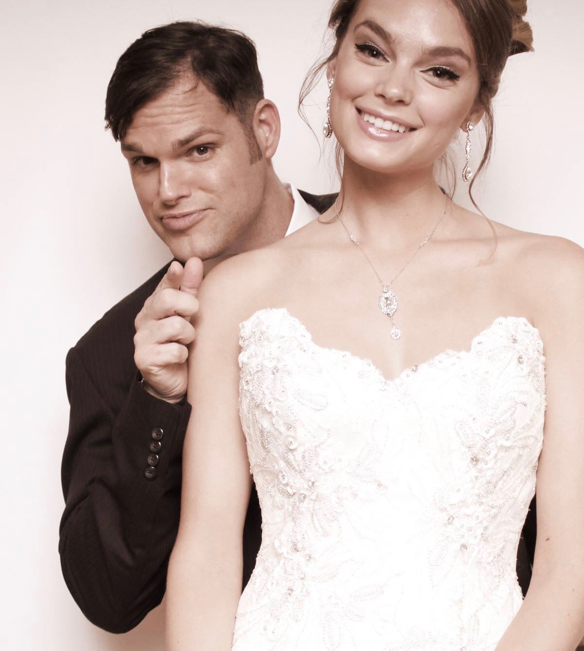 This is a photo of fashion designer Matthew Christopher.